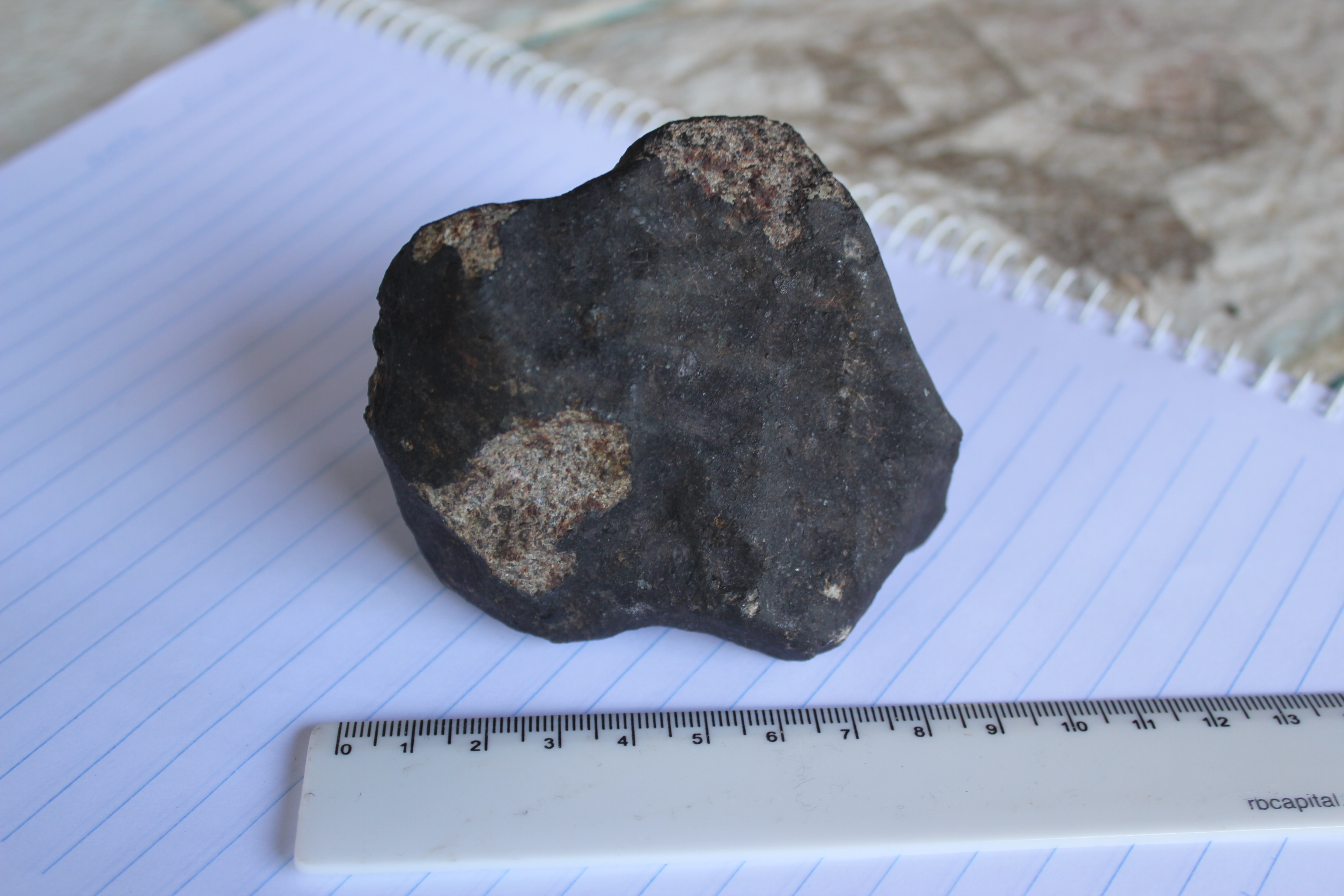 Fragment of the Porangaba meteorite of 520g.